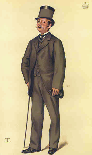 Caricature of ViscountHawarden. Caption read "hereditary whip".